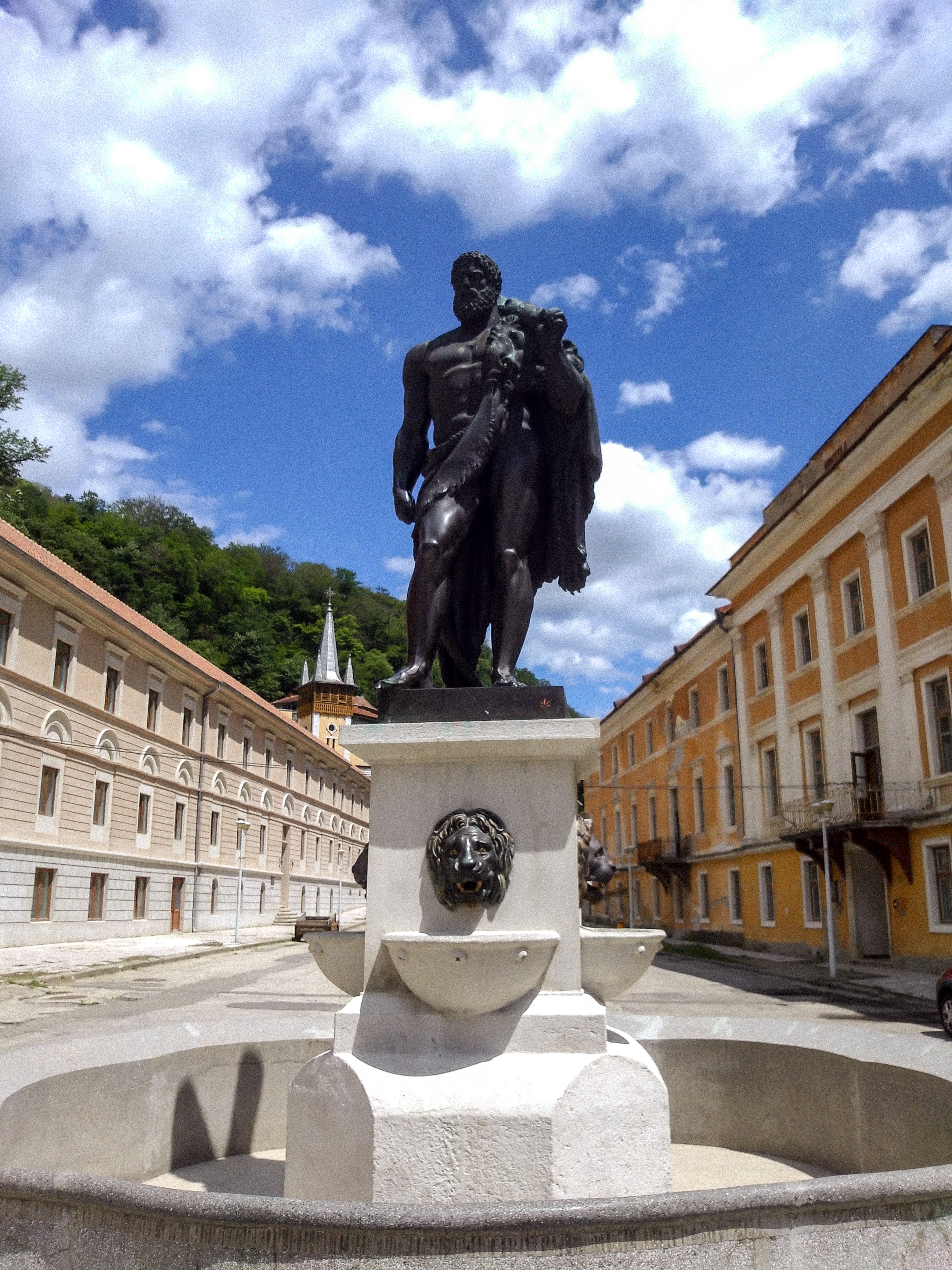 Statue of Hercules, Băile Herculane